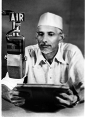 AIR Calcutta/June,1950,A31(n)Syed Wajid Ali, President, Rafa-ul-Muselmeen, Cuttack who broadcast to talk on Indo-Pakistan Agreement from Cuttack station of AIR on June 24, 1950. Photo Number:-15332